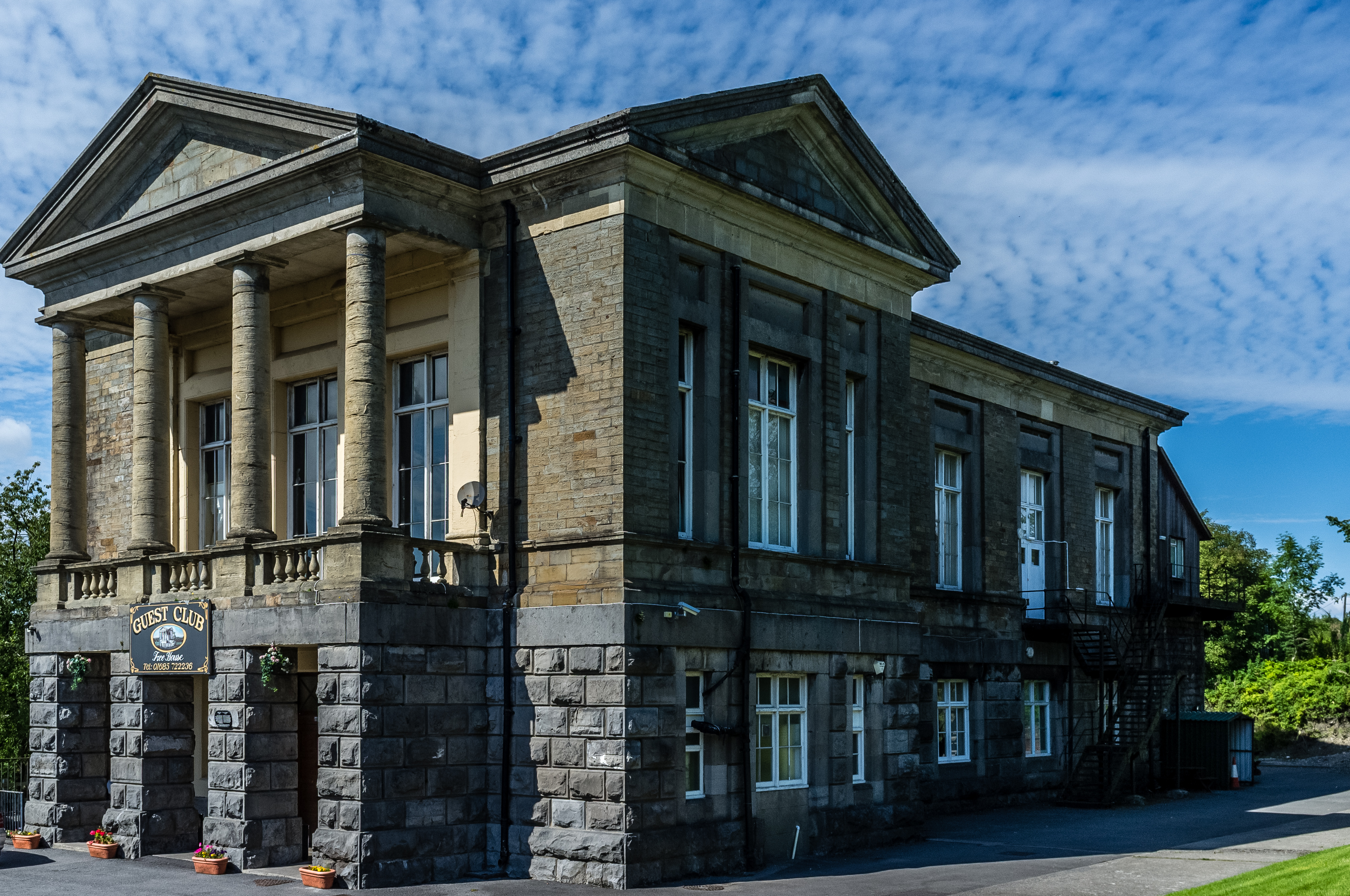 Former Guest Memorial Library in Dowlais, Methyr Tydfil seen from the south east